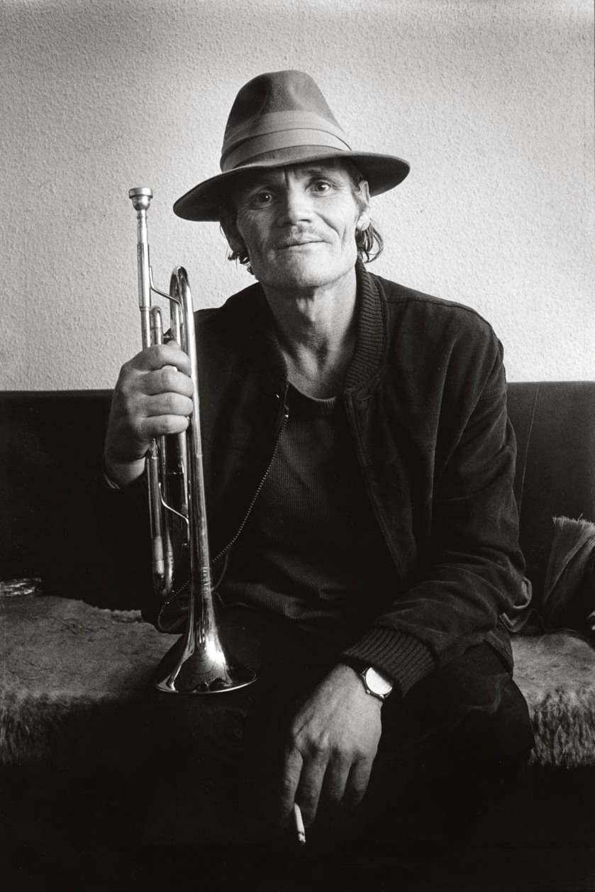 Chesney Henry "Chet" Baker, Jr. /American jazz trumpeter, flugelhorn player and singer. Here in Belgium 1983.